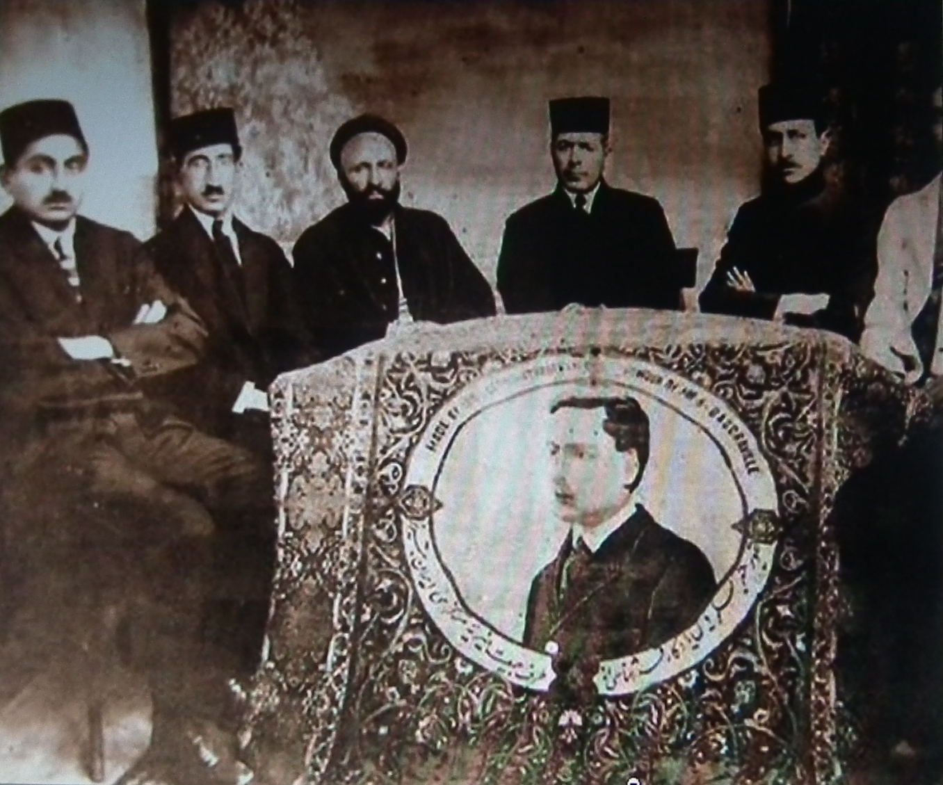 Baskerville picture woven on it was made by the carpet weavers of Tabriz